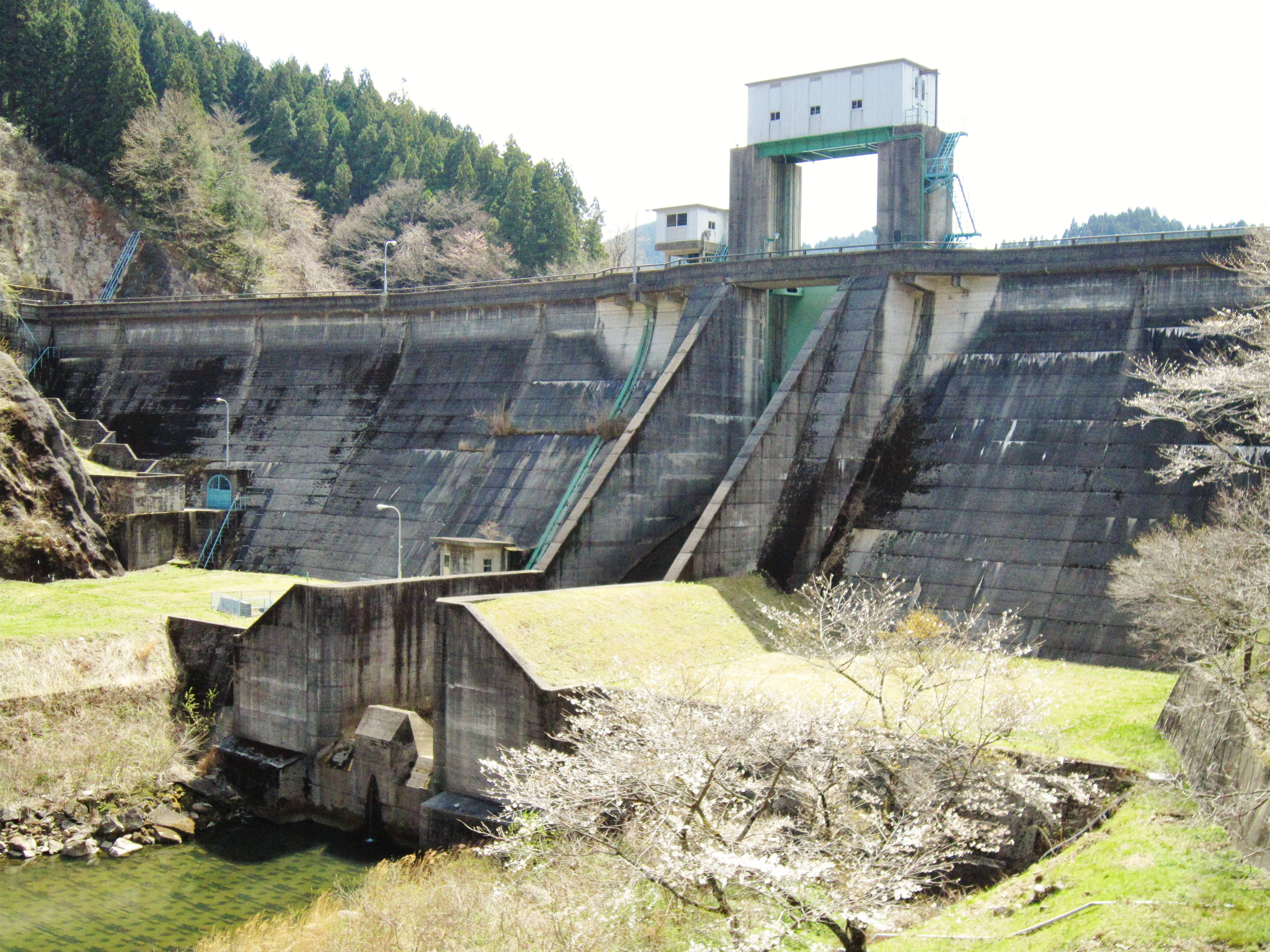 Mizunuma Dam.